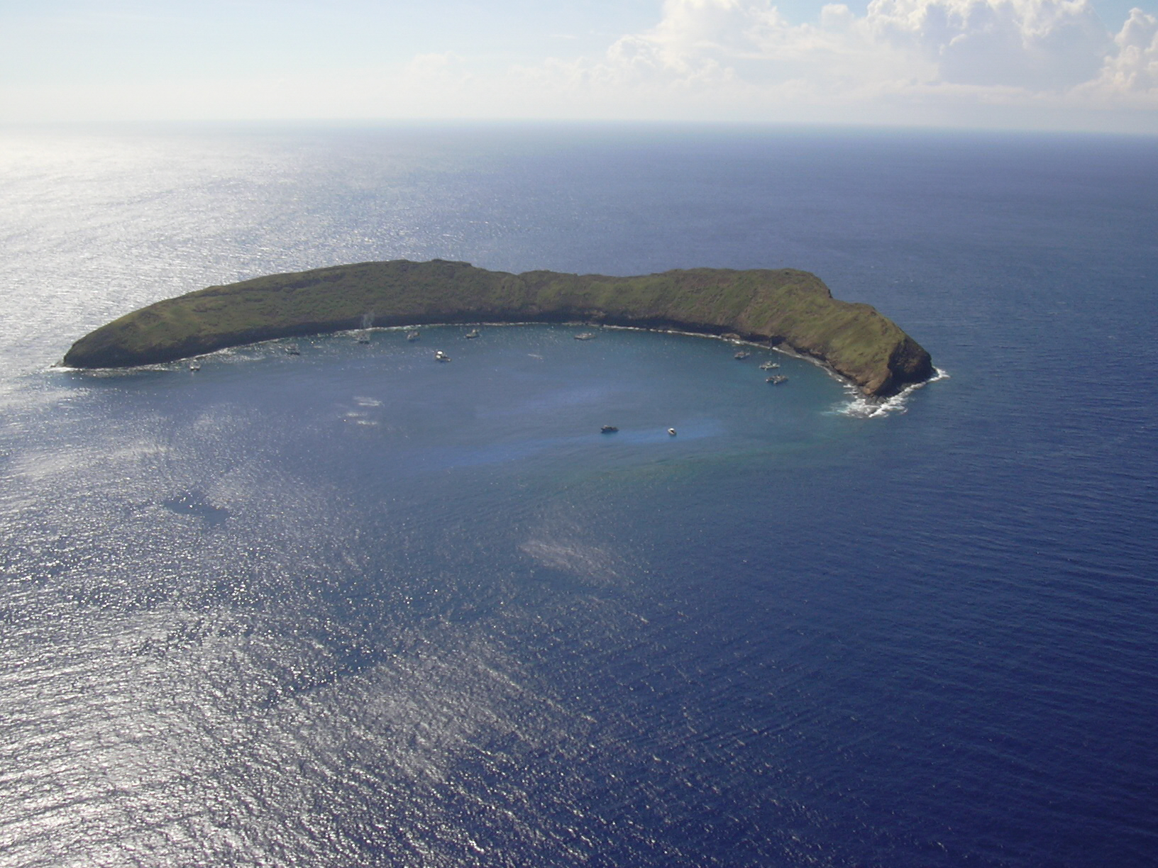 Aerial view of Molokini Island, Hawaii